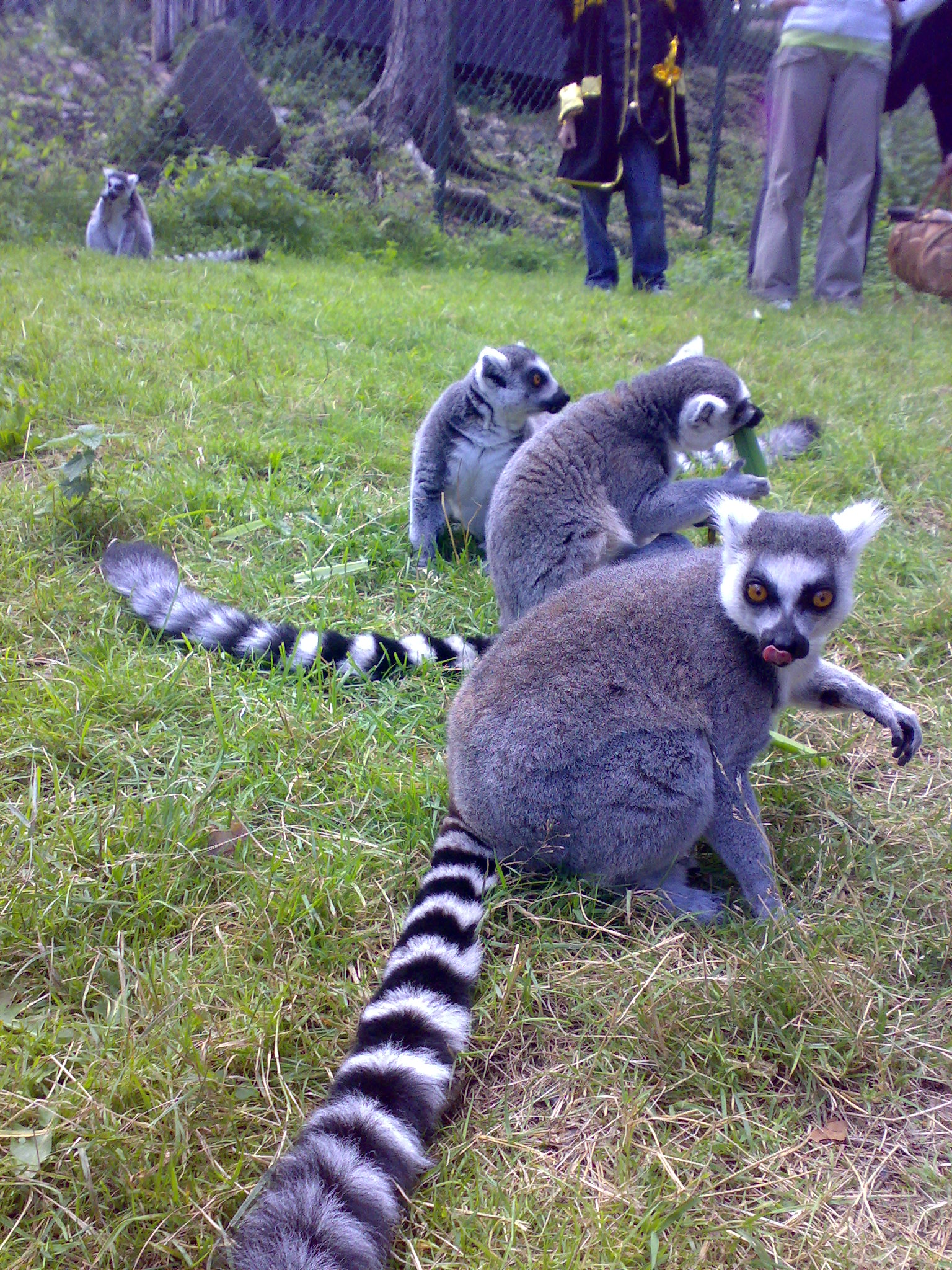 Lemurs in kristiansand Zoo Norway